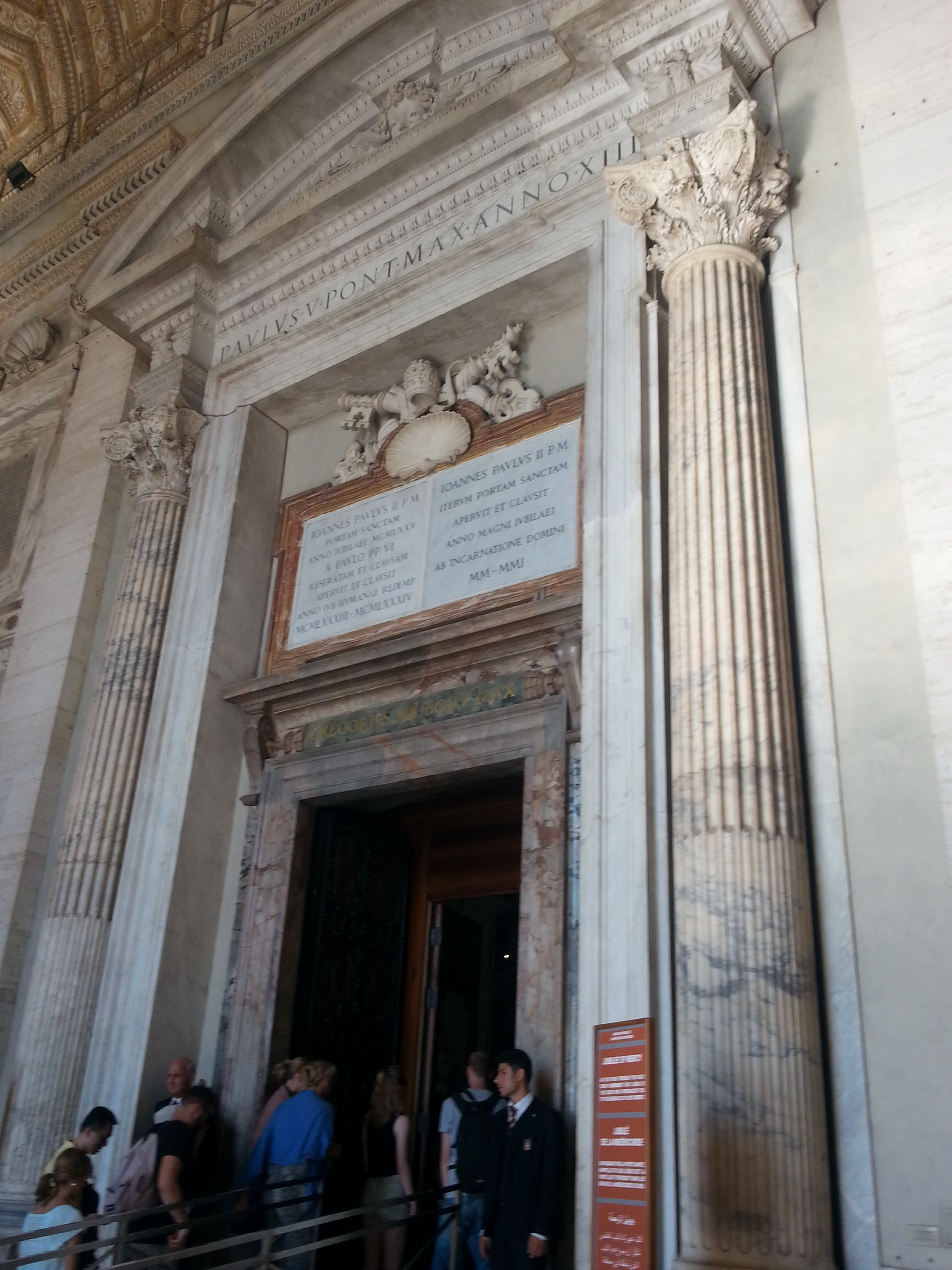 Saint Peter's Basilica. Holy door (open in 2016 - Extraordinary Jubilee of Mercy) - Porta Santa